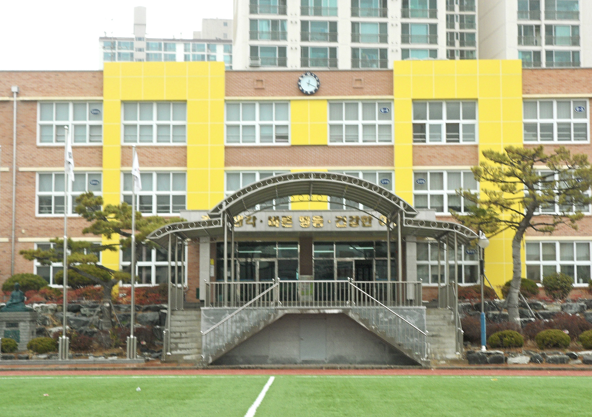 Front entrance to Daehyun Elementary's main building in Ulsan, South Korea